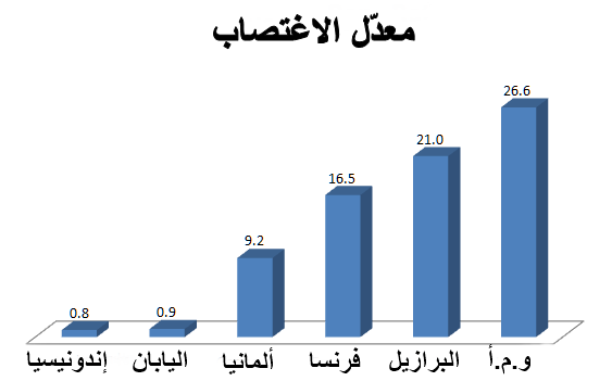 UNODC : Rape Rate Per 100,000 Population (2011)